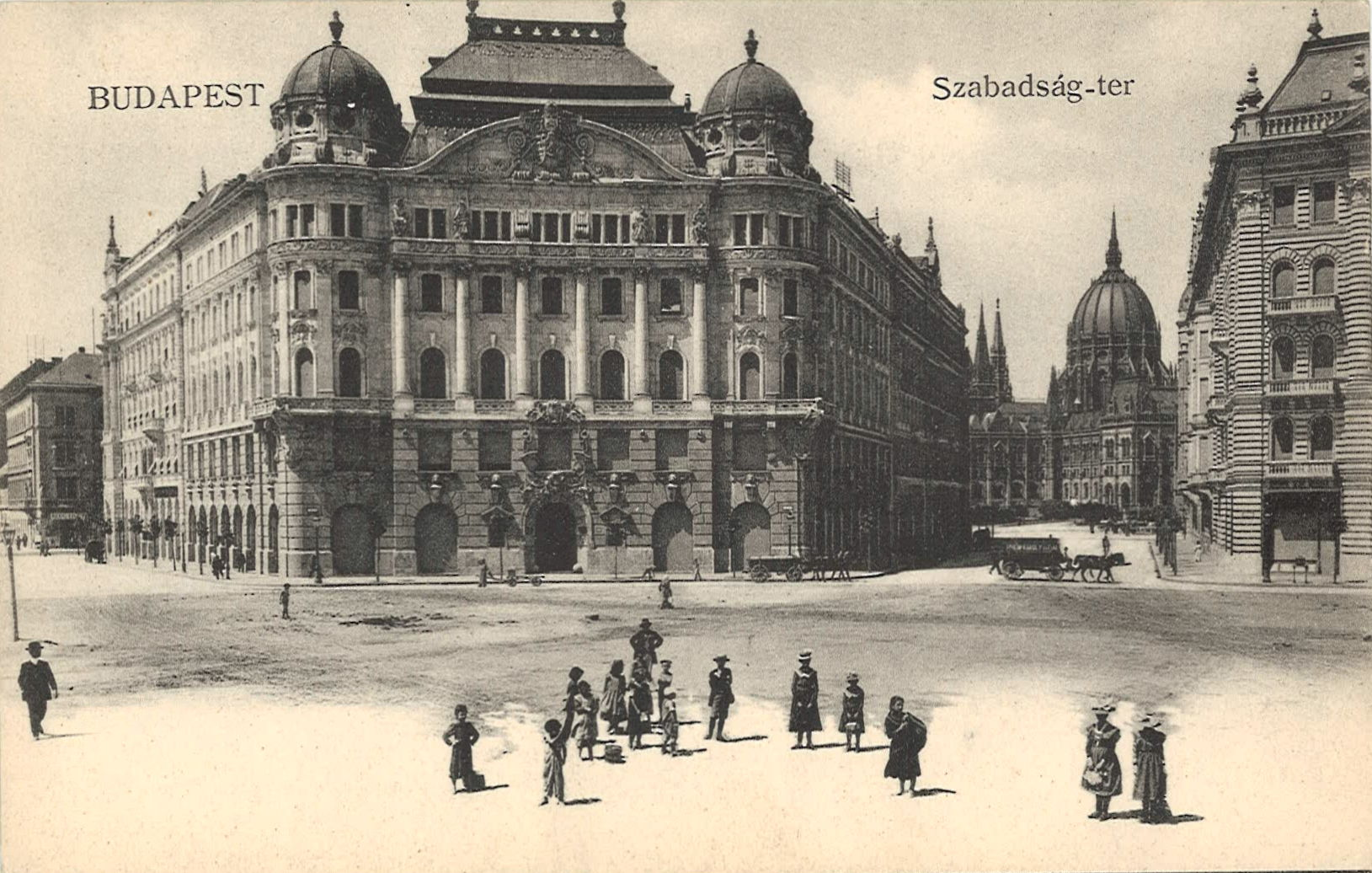 Picture postcard showing the Adria palace, Budapest, by Meinig (ca. 1902)az "Adria" Magyar Királyi Tengerhajózási Rt. egykori székháza (Meinig Artúr (tervező), Búza Barna, 1903). - Budapest, V. kerület, Szabadság tér 16.